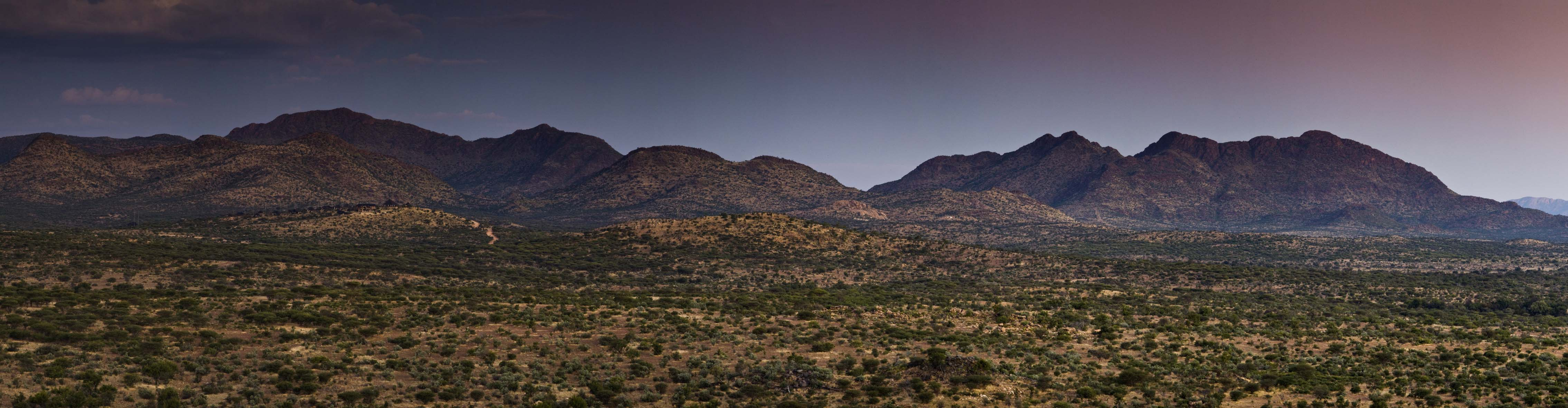 Stunning landscape